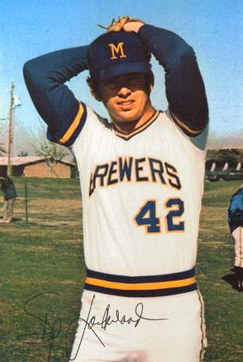 Professional baseball player Skip Lockwood